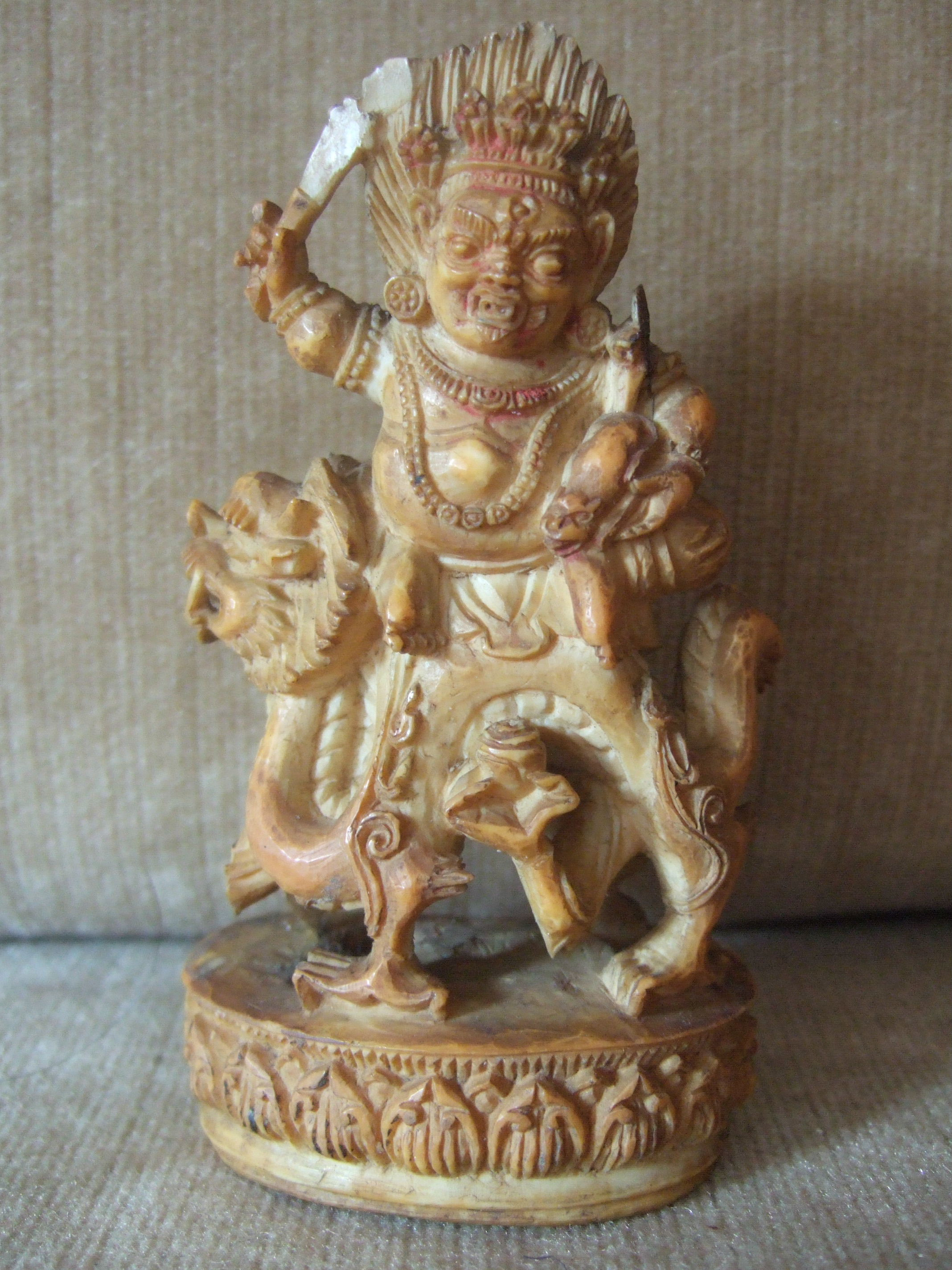 Tibetan ivory statuette of the White Jambhala (18th century)